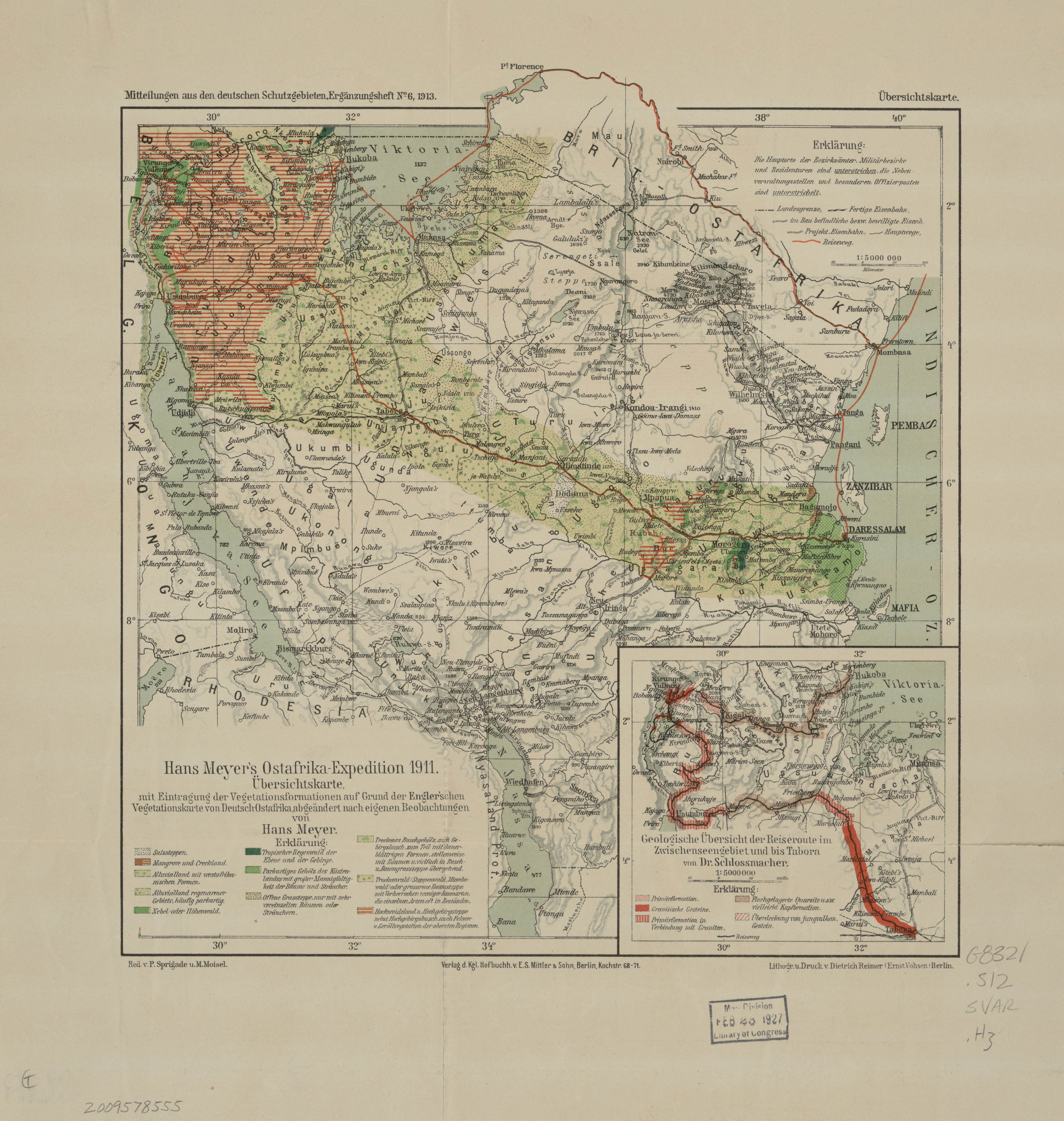 Relief shown by form lines and spot heights. Published as a supplement to Mitteilungen aus den deutschen Schutzgebieten, Ergänzungsheft no. 6, 1913. Available also through the Library of Congress Web site as a raster image.